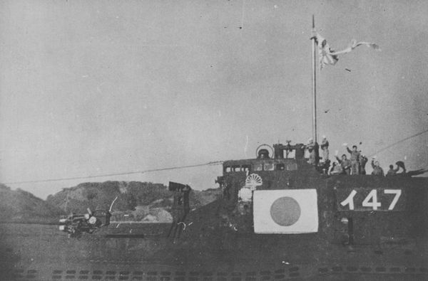 HIJMS I-47